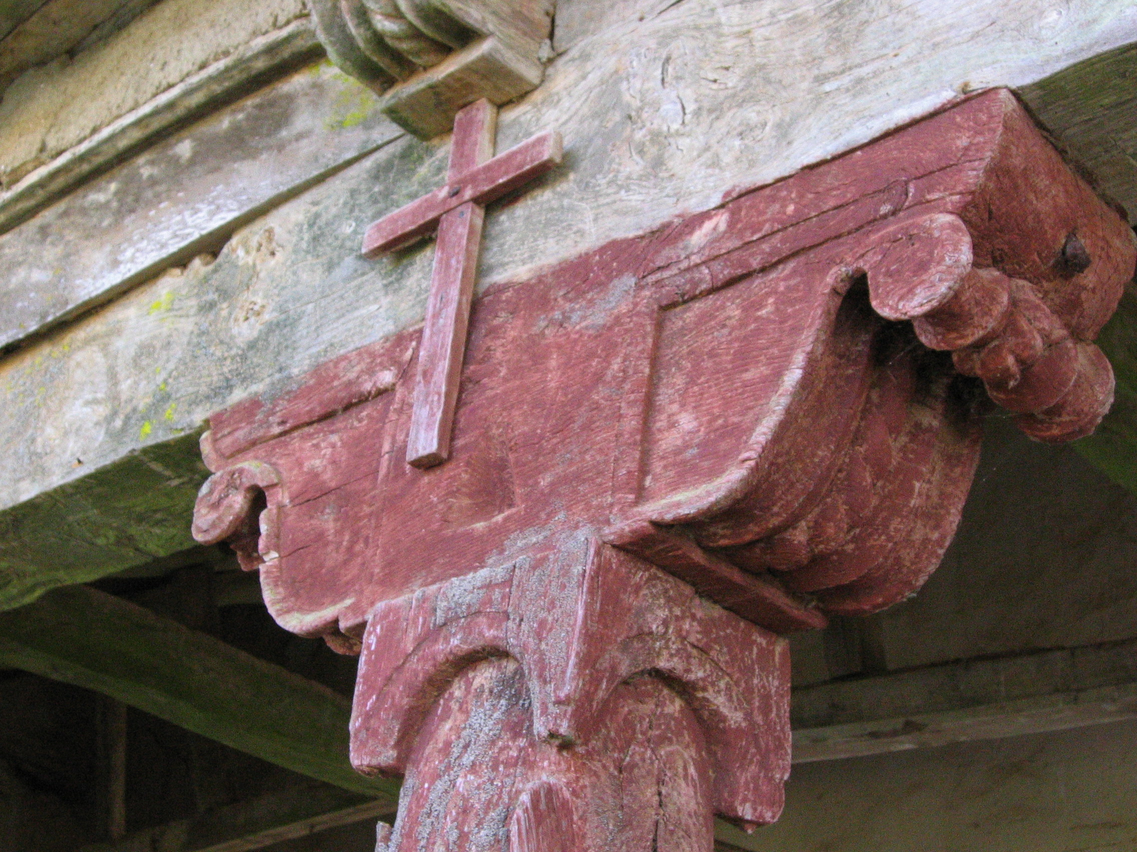 Church of Saint Michael in Valcabadillo (Palencia, Castile and León).